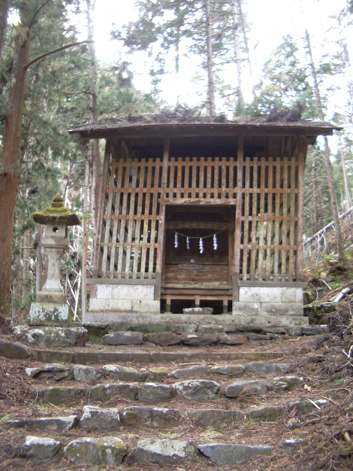 Small Shrine